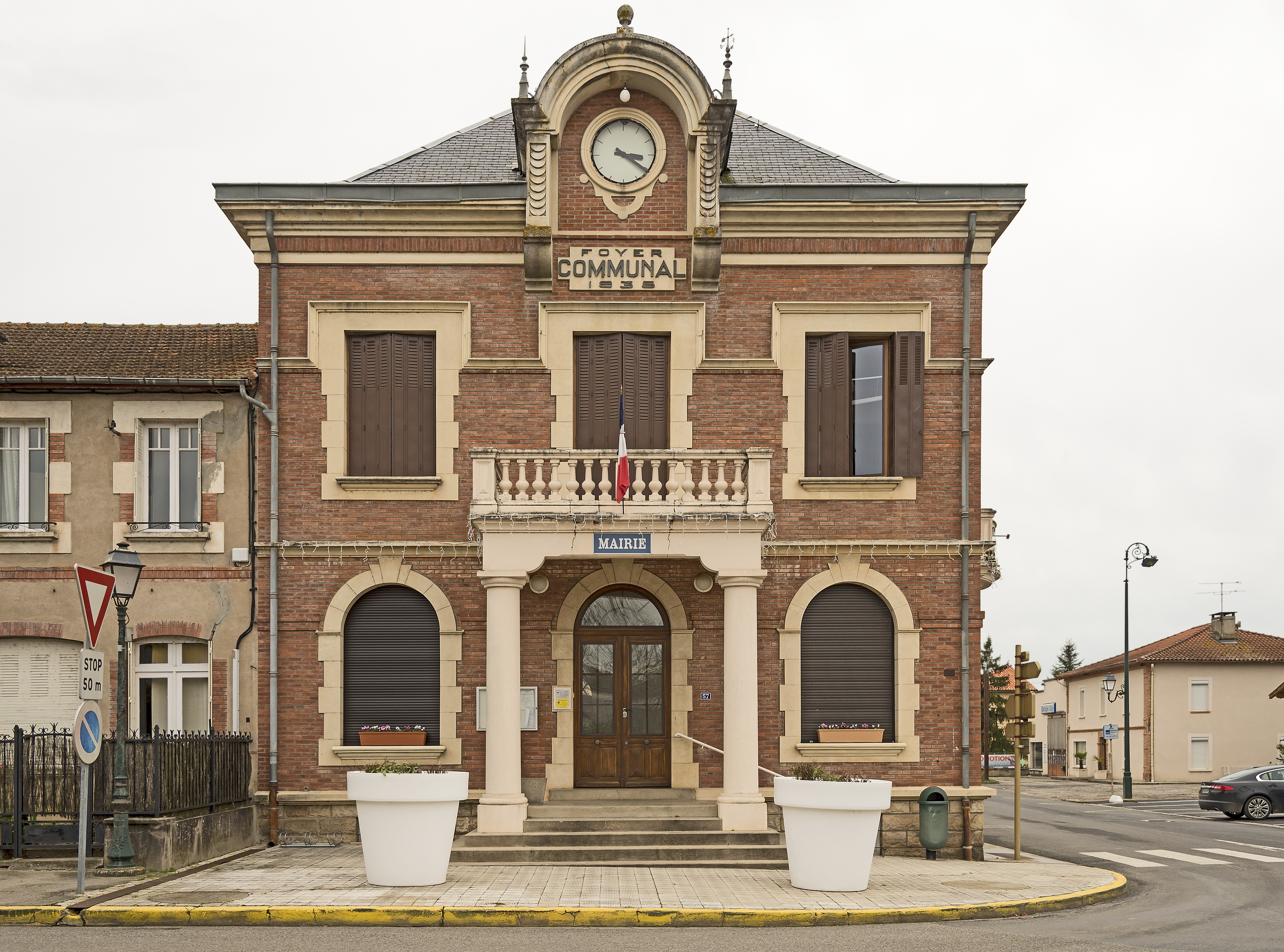 Mirepoix-sur-Tarn. Facade of town hall.